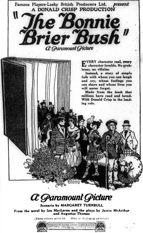 American newspaper advertisement for the British drama film The Bonnie Brier Bush (1921), ad consists of drawing and does not include any stills from the film, on page 35 of the October 28, 1921 Variety.